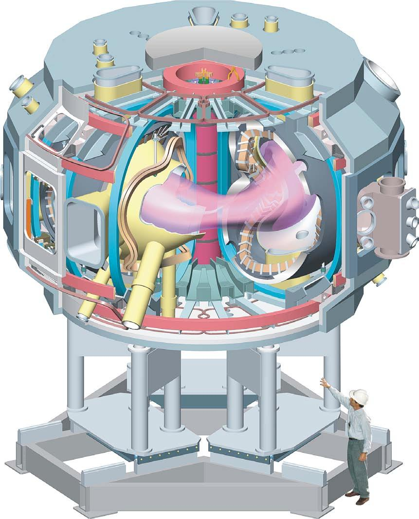 CAD design drawing of the National Compact Stellarator Experiment (NCSX). One side of the vessel is left open to allow a view onto the plasma.